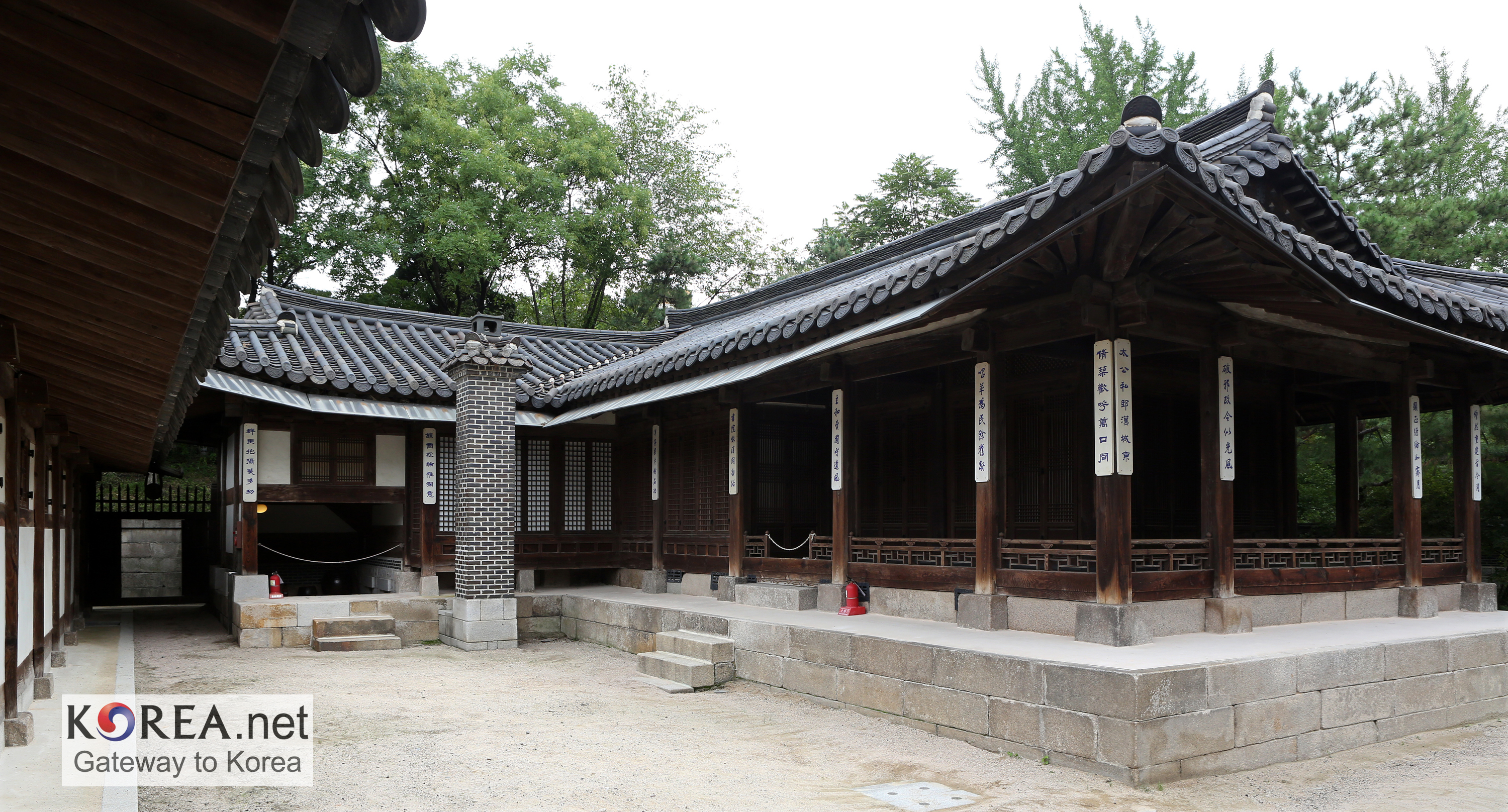 Sketchs in Unhyeongung This is the house in which King Gojong, the 26th king of Joseon, lived before he acceded to the throne. It was owned by Heungseon Daewongun Yi Haeung, the father of Gojong. While staying at this house, Heungseon Daewongun ruled over the country for about 10 years, after taking control of state affairs in place of his son. Unhyeongung was so named after a pass where Seoungwan was situated. In 1864, Norakdang and Noandan were built, and in 1869, Inrodang and Yeongnodang(Seoul Folklore Material No.19) were erected. To facilitate going in and out of Changdeokgung, Gyeonggeumum and Gonggeunmun were built exclysively for Gojong and Heungseon Daewongun, respectively. But they do not reamain today. In 1912, Yanggwan was built to greet guests. Noandang was where Heungseon Daewongun discussed state affairs. Norakdang and Inrodang were used as the Anchae(inner quaters) and the Byeolchae(outbuilding), respectively. Considering the size, formality and the ground plan, Unhyeongung is similar to an inner palace rather than the house of a high ranking official. Following the death of Heungseon Daewongun, the house was inherited by his eldest son Yi Haemyeon and then his grandson Yi junyong after. Following the Korean War, however, a considerable part of the house was sold, and therefore the size of the house was considerably reduced. Ministry of Culture, Sports and Tourism Korean Culture and Information Service Jeon Han 운현궁(雲峴宮) 2012. 09.09. 문화체육관광부 해외문화홍보원 전한